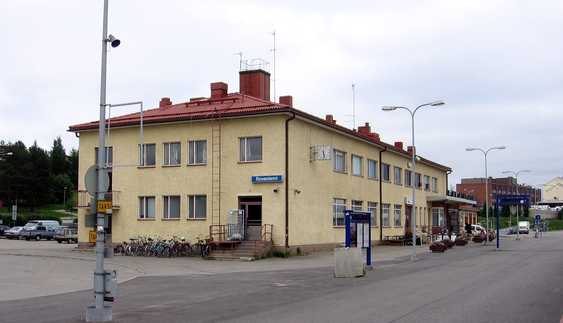 Rovaniemi railway station in Rovaniemi, Finland